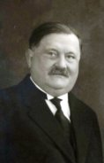 Citation: H.S. Bender Photographs. HM4-083. Mennonite Church USA Archives - Goshen. Goshen, Indiana.